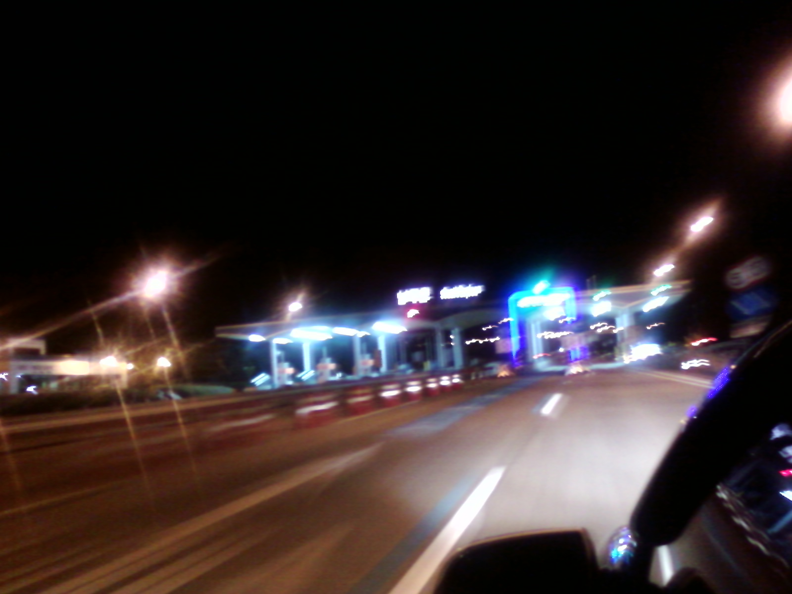 South Daejeon Interchange on Tongyeong-Daejeon Expressway in South Korea. It was taked picture in mid-night.